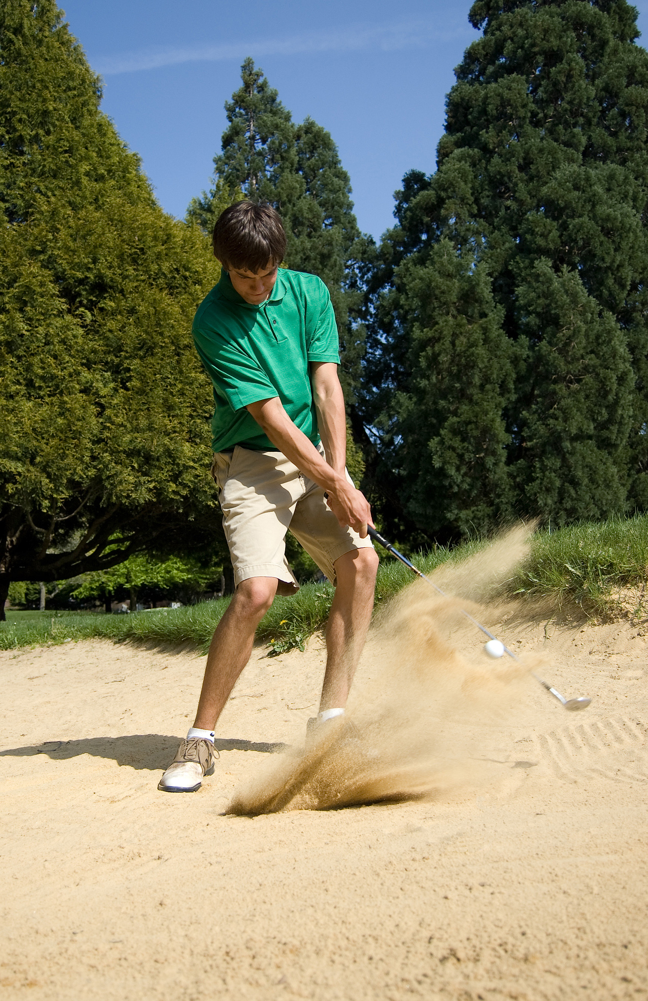 A golfer hits out of a green-side bunker.